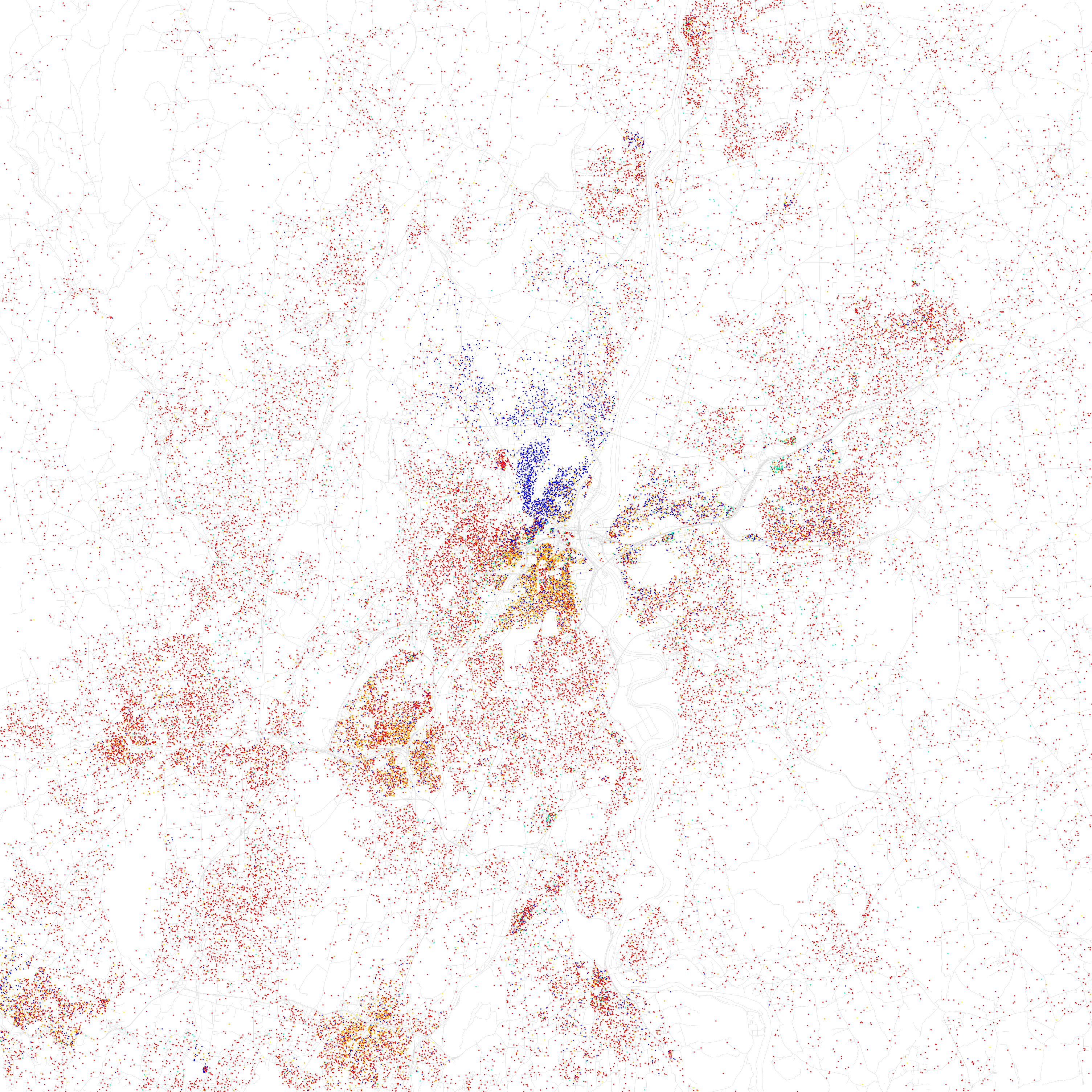 Maps of racial and ethnic divisions in US cities, inspired by Bill Rankin's map of Chicago, updated for Census 2010. Red is White, Blue is Black, Green is Asian, Orange is Hispanic, Yellow is Other, and each dot is 25 residents. Data from Census 2010. Base map © OpenStreetMap, CC-BY-SA